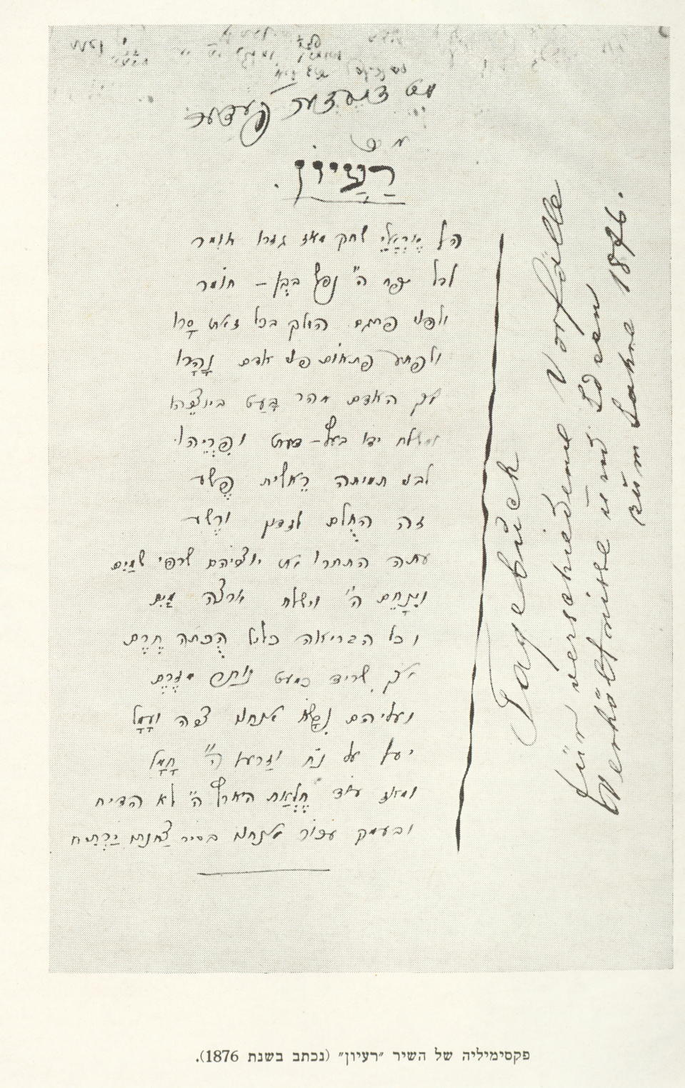 Nachum Sokolov's handwriting, 1876